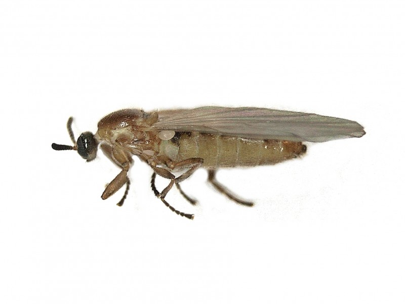 Apiloscatopse flavicollis (Scatopsidae) - (imago), Arnhem - Rijkerswoerdse Plassen, the Netherlands